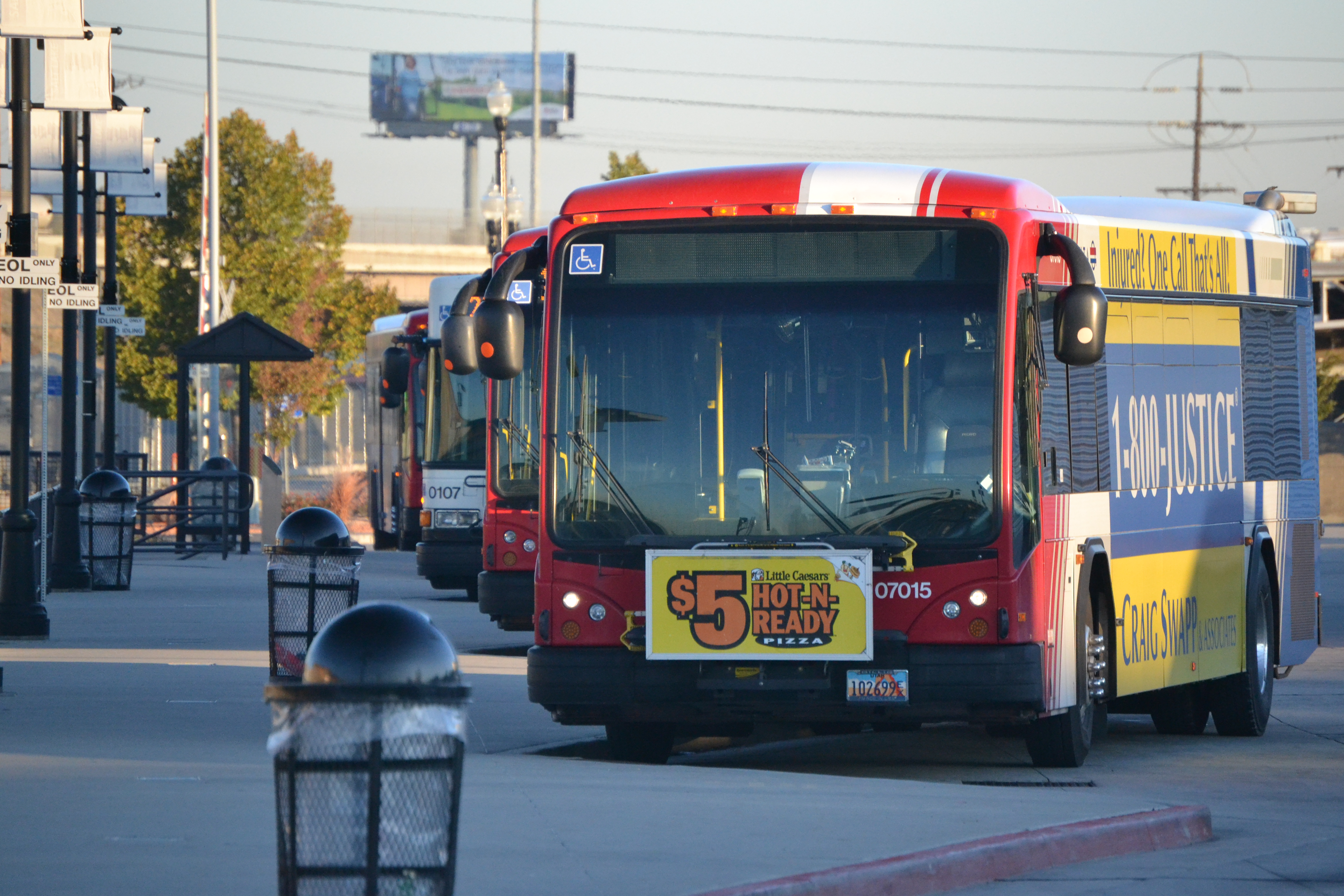 Utah Transit Authority, Salt Lake City.